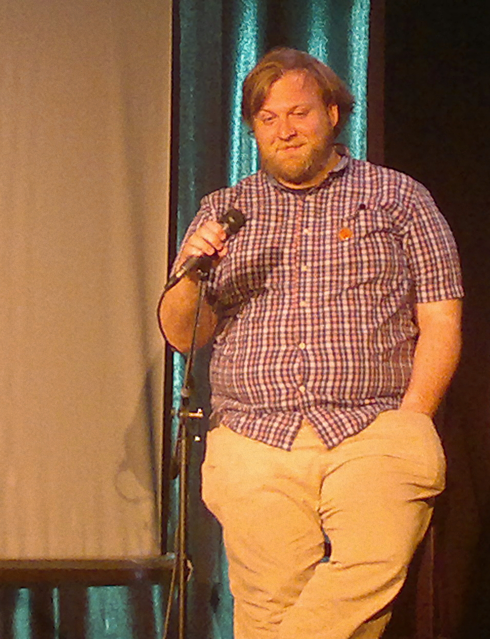 Pendleton Ward, creator of Adventure Time, at the Tomorrow Show in 2011.